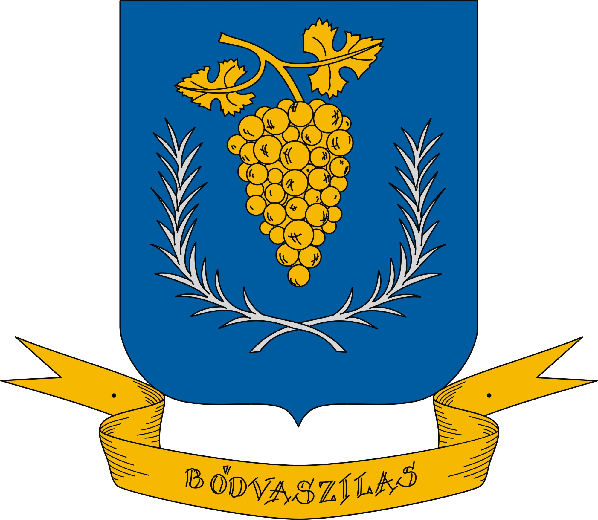 Coat of arms of Bódvaszilas, Hungary